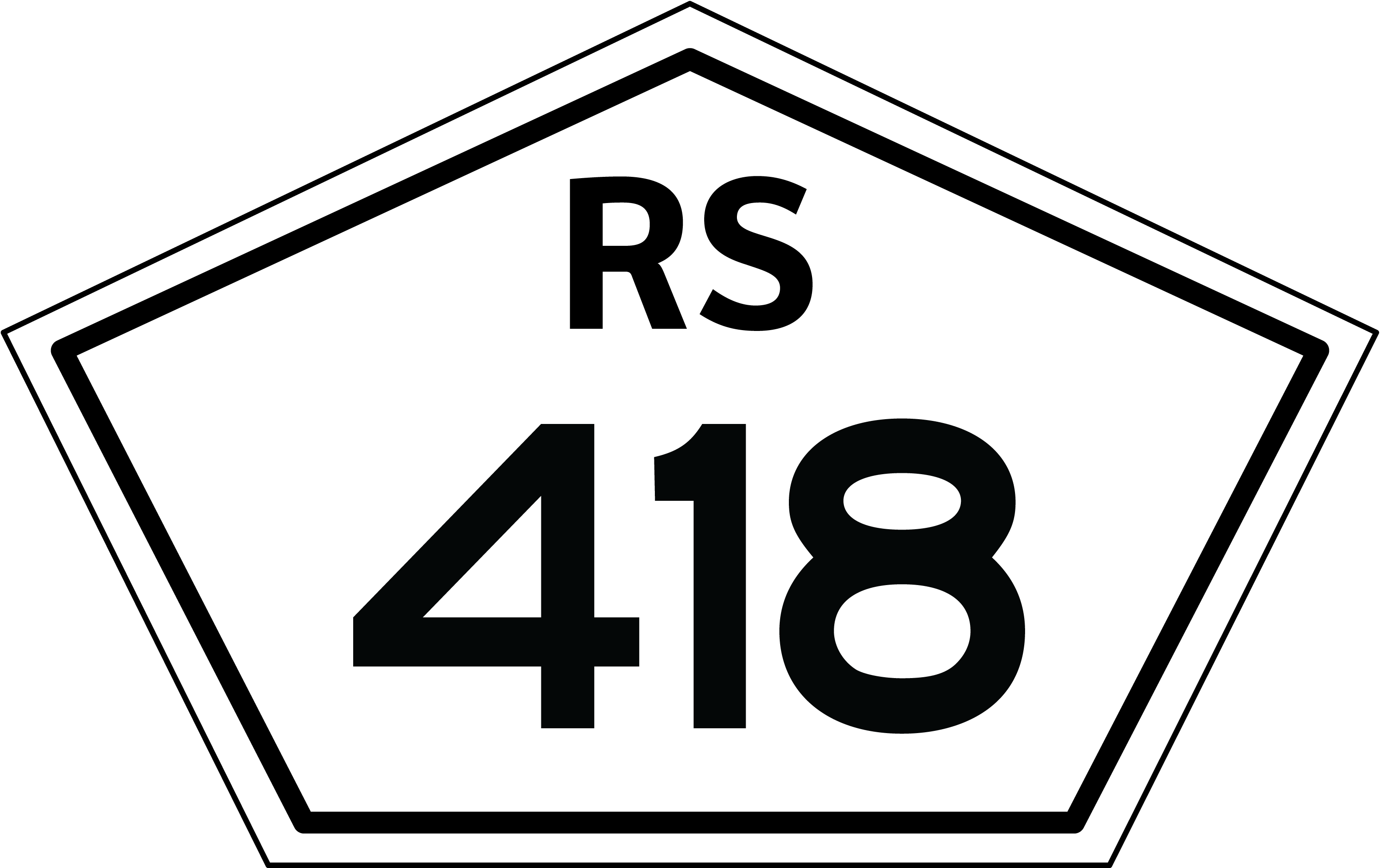 RS-418 State road in Rio Grande do Sul, Brazil. Rua estadual no Rio Grande do Sul, Brasil.